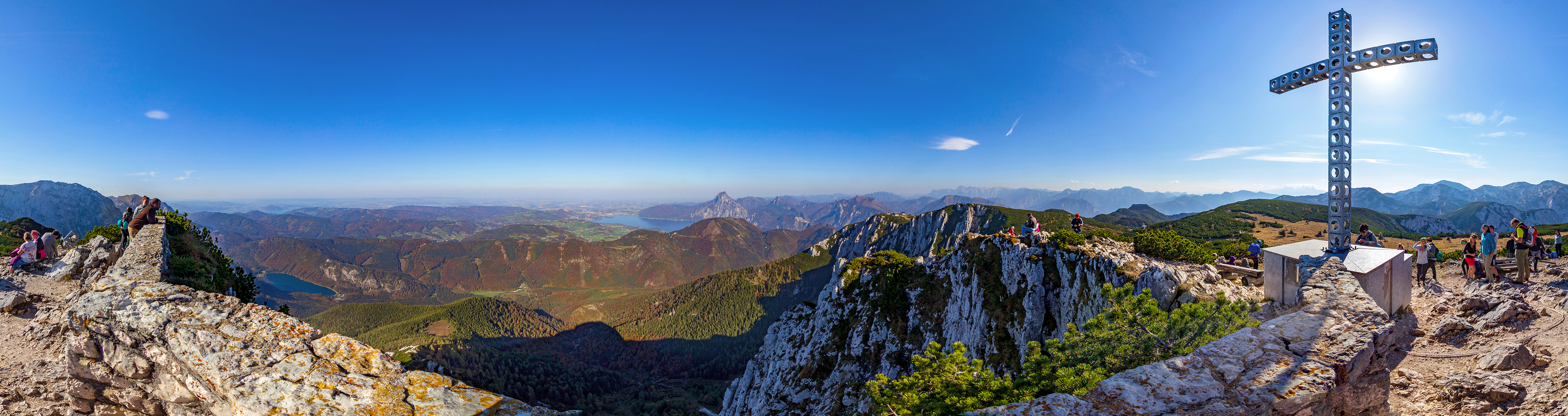 360° panoramic view from the summit of the Alberfeldkogel (1707 m) (1691 m), Upper Austria.